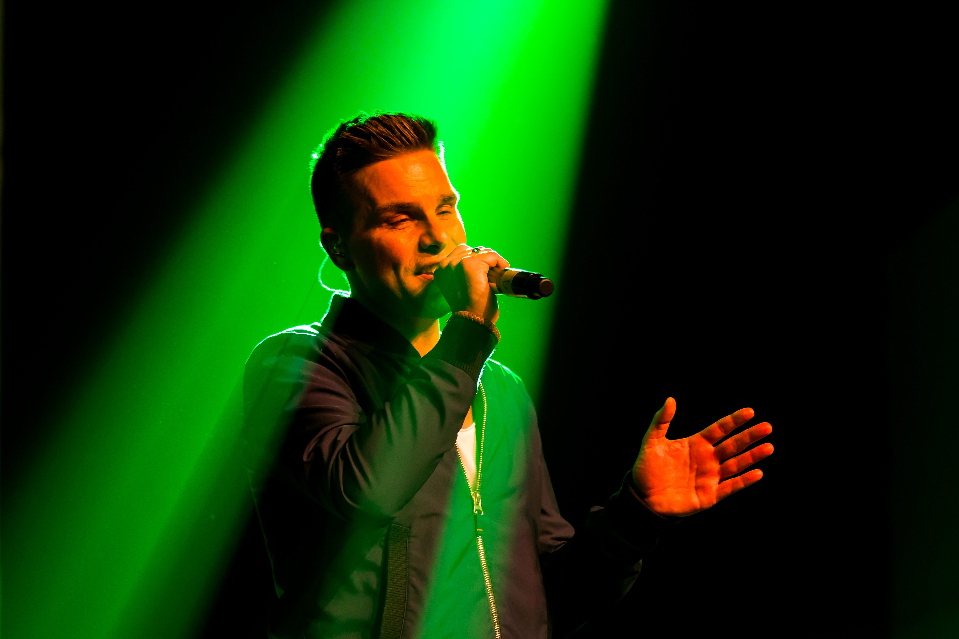 RPR1 90er Festival Maimarkthalle Mannheim Eloy, LayZee aka Mr. President, Nana, Right Said Fred, Snap! feat. Penny Ford during RPR1 90er Festival at Maimarkthalle, Mannheim, Baden-Württemberg, Germany on 2015-03-14, Photo: Sven Mandel